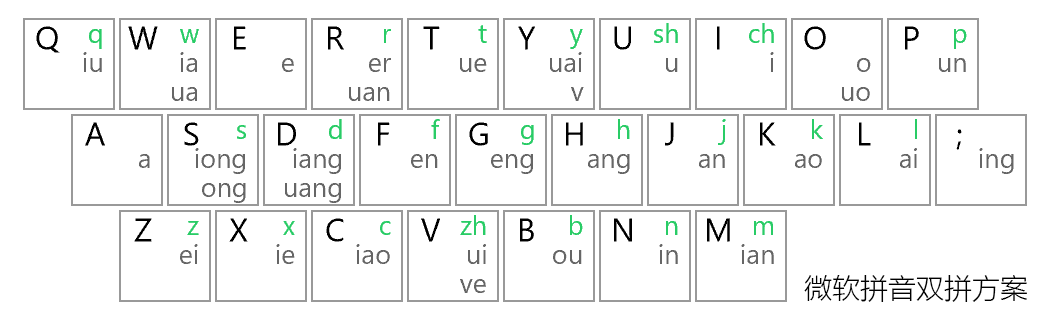 Microsoft Double Pinyin Scheme